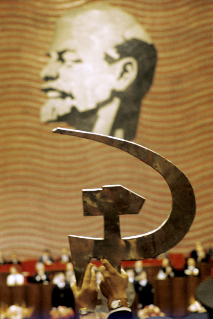 “YCL 17th Congress”. 17th Congress of the Young Communist League , the Kremlin Palace of Congresses.